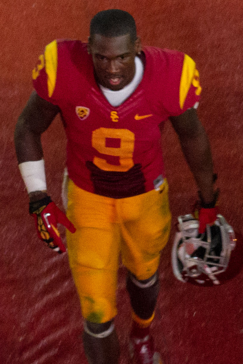 Marqise Lee after a game in the 2012 USC Trojans season.